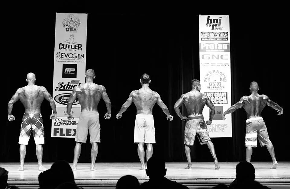 Photograph by Steve Mark of the top 5 Men's Physique Master competitors on stage at the 2014 NPC Jay Cutler Classic from John Hancock Hall in Boston, Massachusetts. 1st - Michael Anderson #207 (center) 2nd - David DeLaCruz #205 (far right) 3rd - Joseph DeMarco #211 (2nd from left) 4th - Michael Nicolas #206 (2nd from right) 5th - John Quinlan #208 (far left)